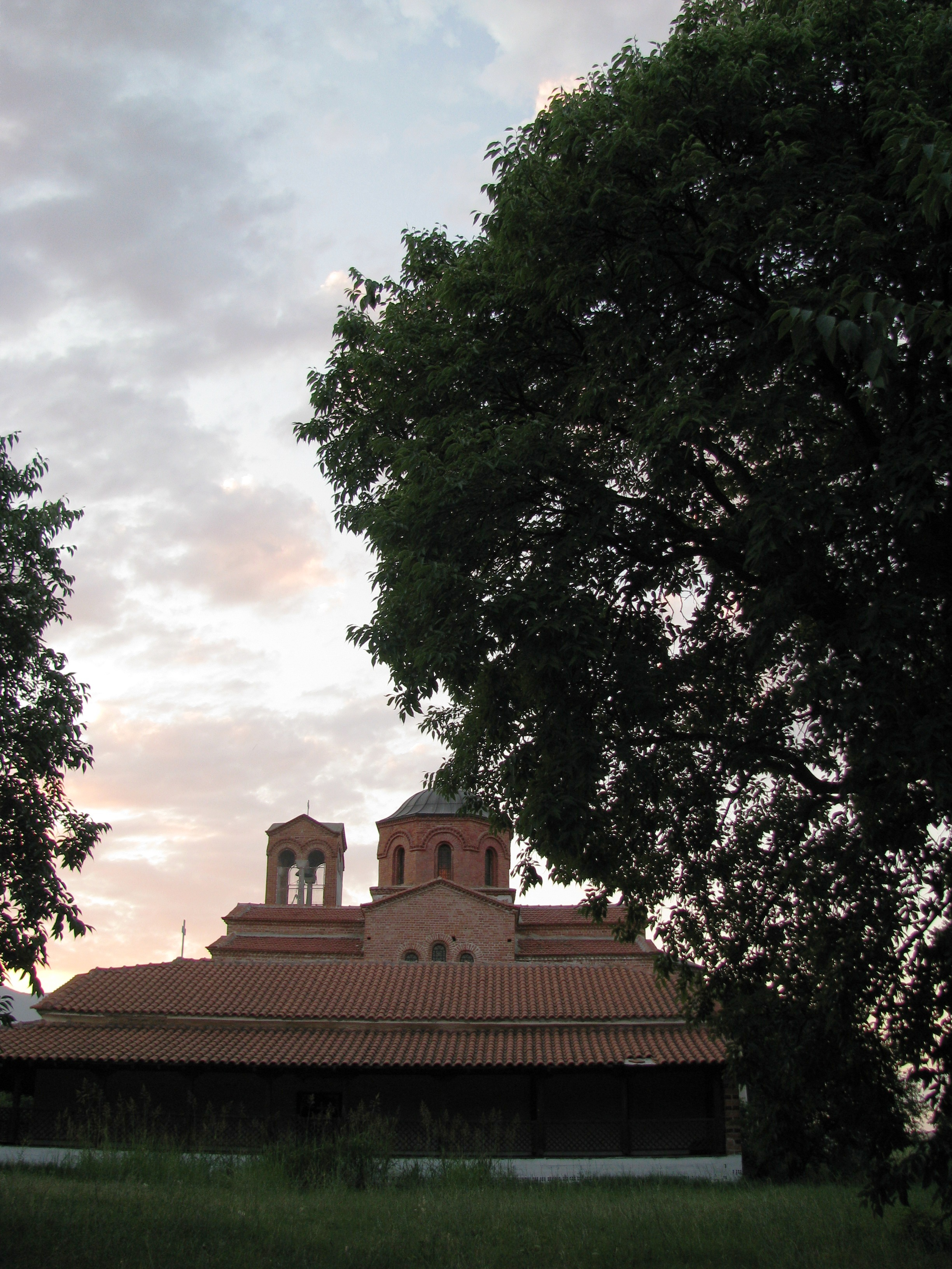 New churches of Radomir or Asvestaria, Greece